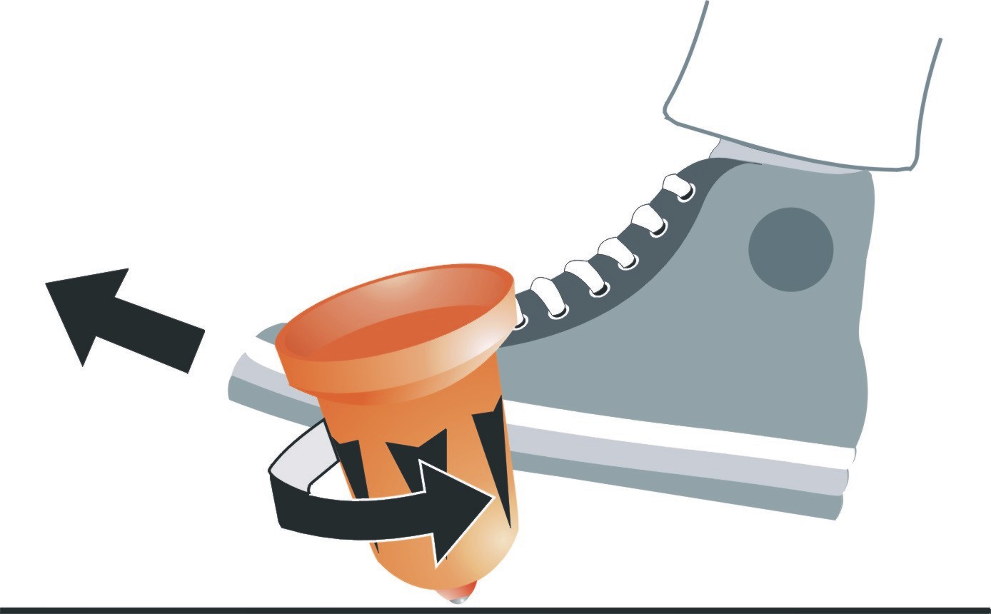 kicking a Footop with a spinning kick to shoot it along and to keep it spinning